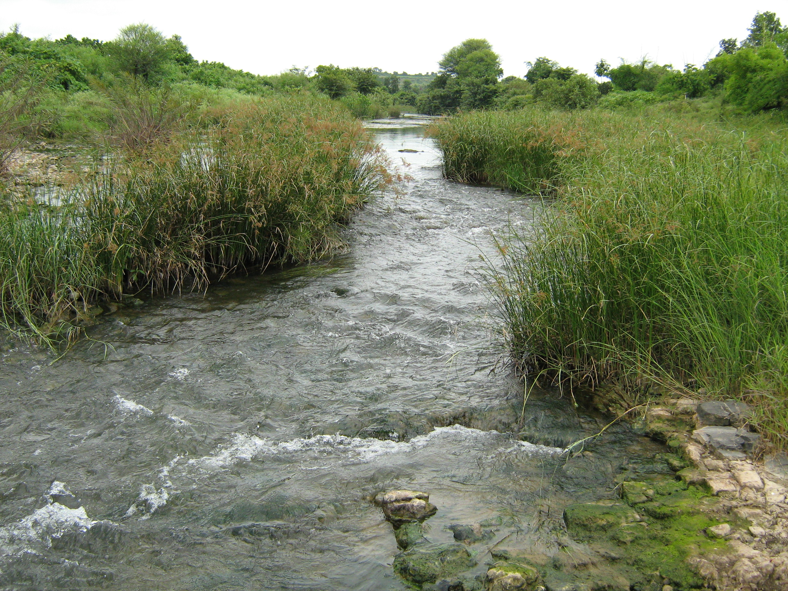 Image of Ramgaon sampling point at Adan River of state of Maharashtra in Central India.